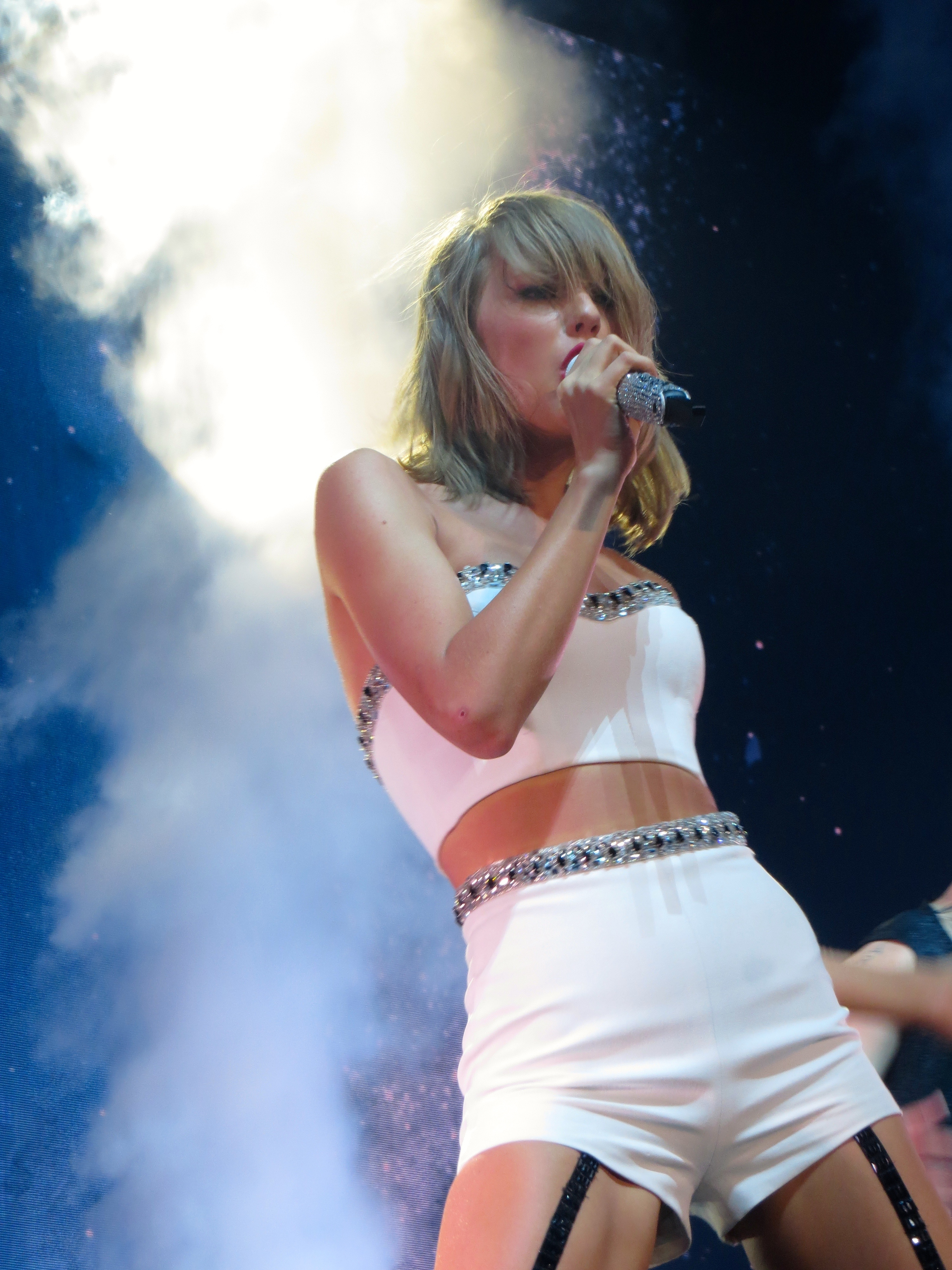 Taylor Swift 10